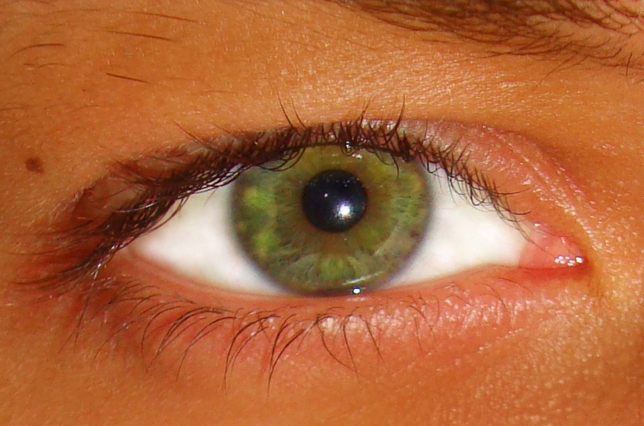 Green Eye